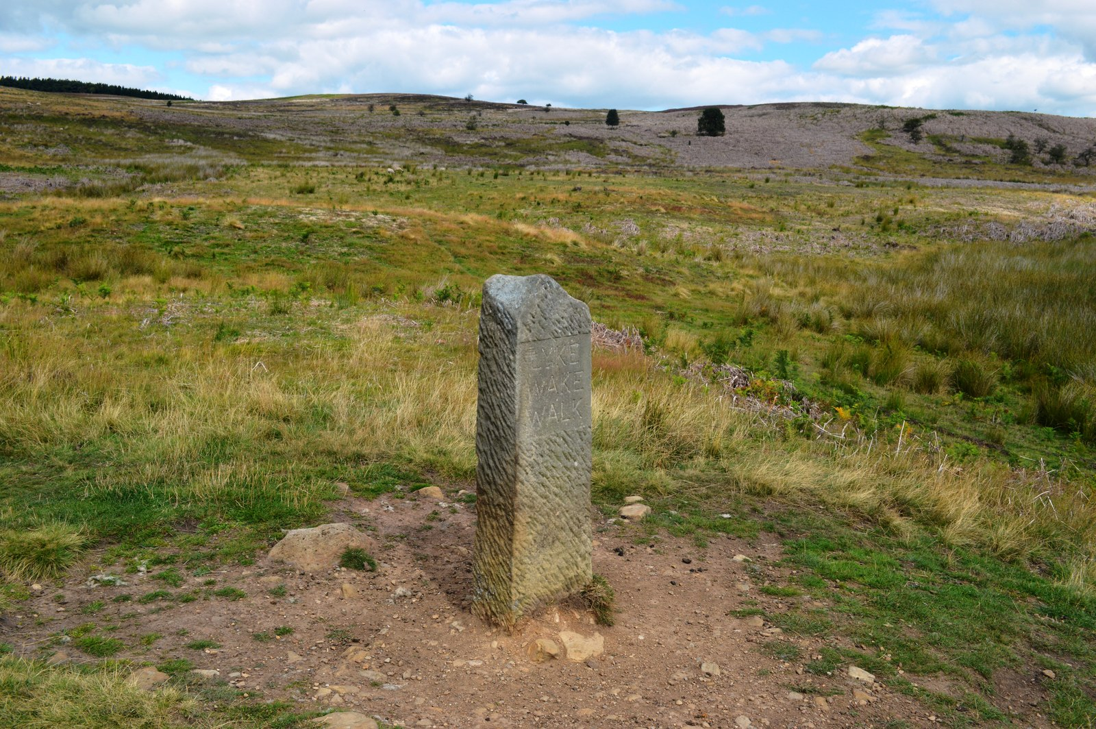 Western end of the Lyke Wake Walk